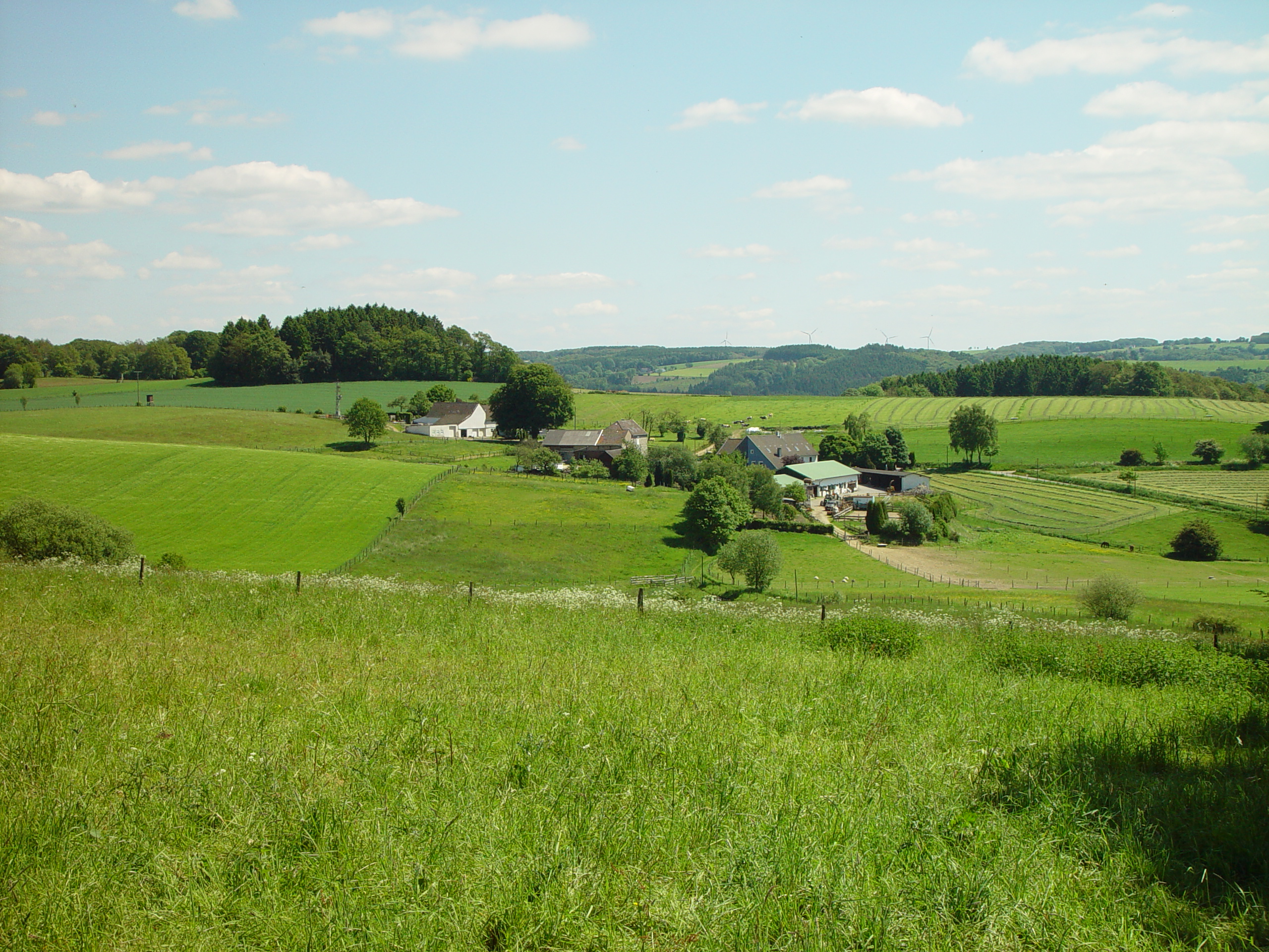 View of Mesenholl in Wuppertal